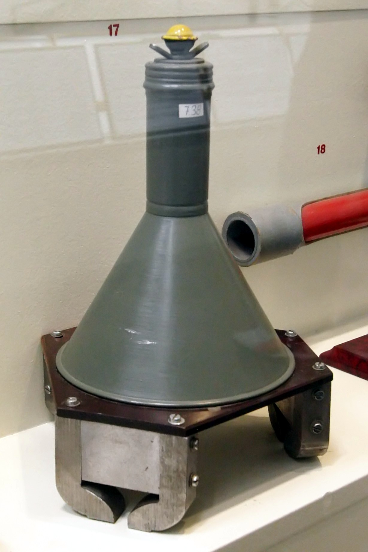 Haft-Hohlladung granare 3kg Magnetic Anti-tank mines on display at the Deutsches Panzermuseum Munster , Germany.